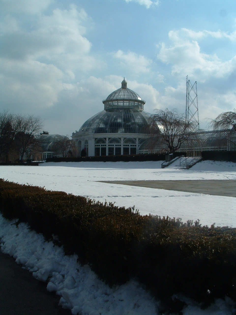 The Enid B. Haupt Conservatory at the New York Botanical Garden.